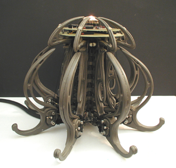 Octofungi, AI "Livings Sculpture": A robotic artwork driven by memory shape alloyed (MSA) with an emulated neural network for "brain". By Yves Amu Klein 1996.